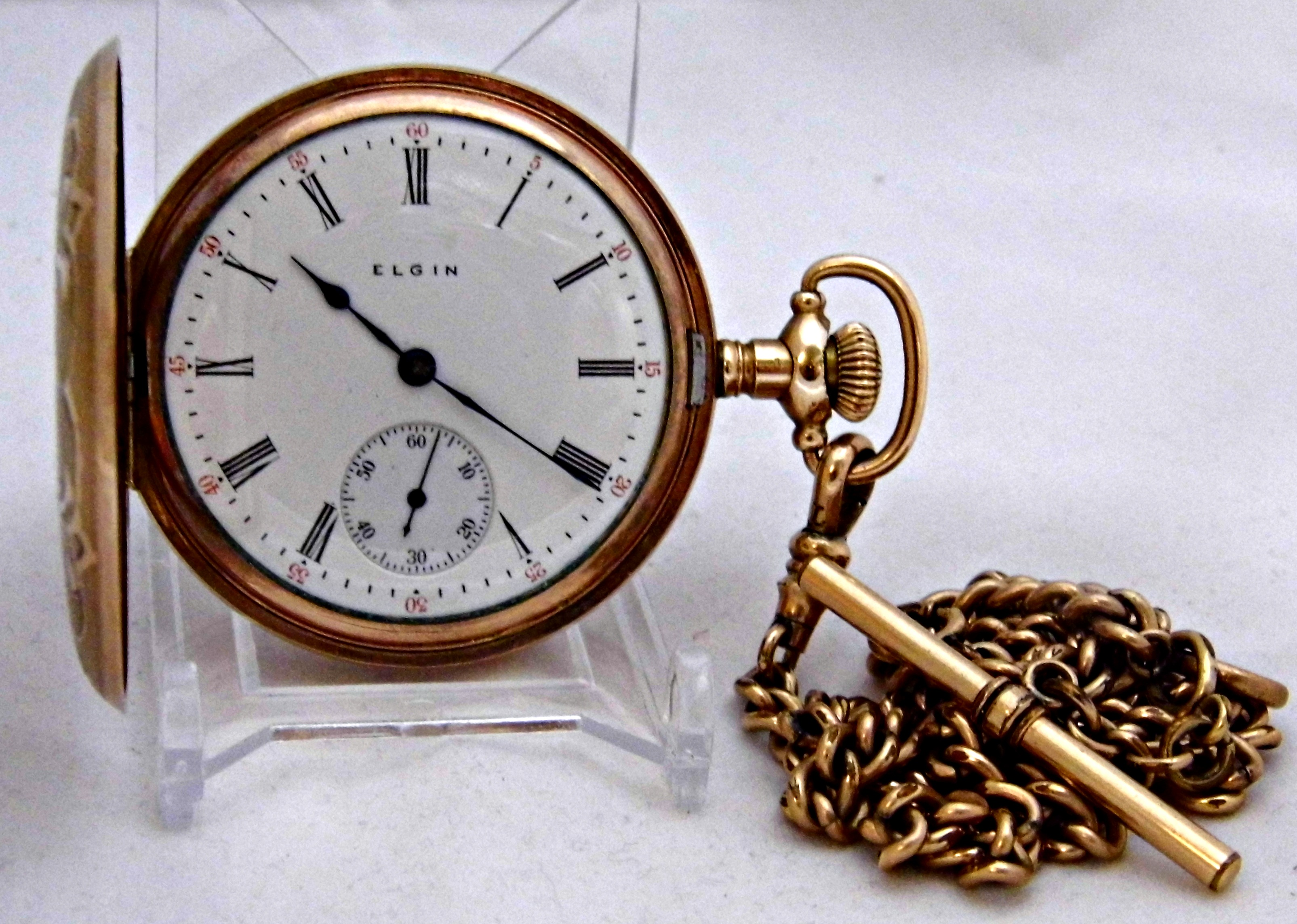 Vintage Elgin Gold-Filled Pocket Watch, Hunter Case, Size 16s, Pendant Set, 15 Jewels, Circa 1909